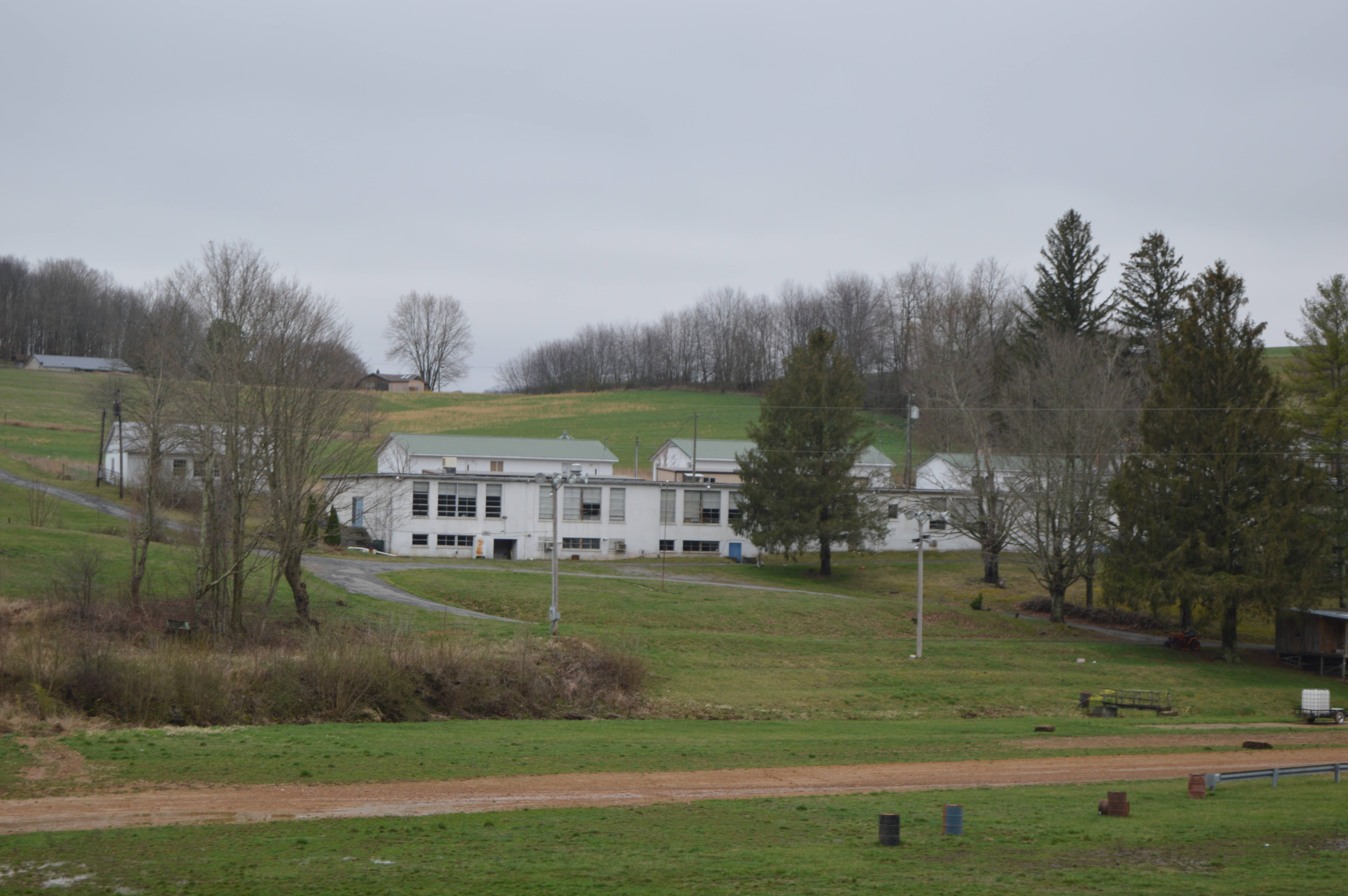 Distant view from West Virginia Route 3 of the school at Gap Mills in Monroe County, West Virginia, United States.